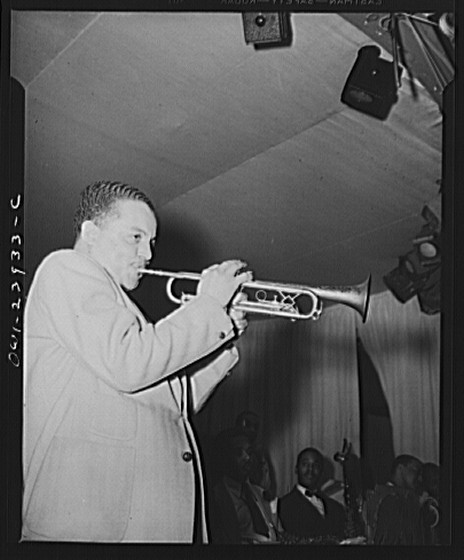 Trumpet player (Ray Nance) in Duke Ellington's orchestra at the Hurricane cabaret